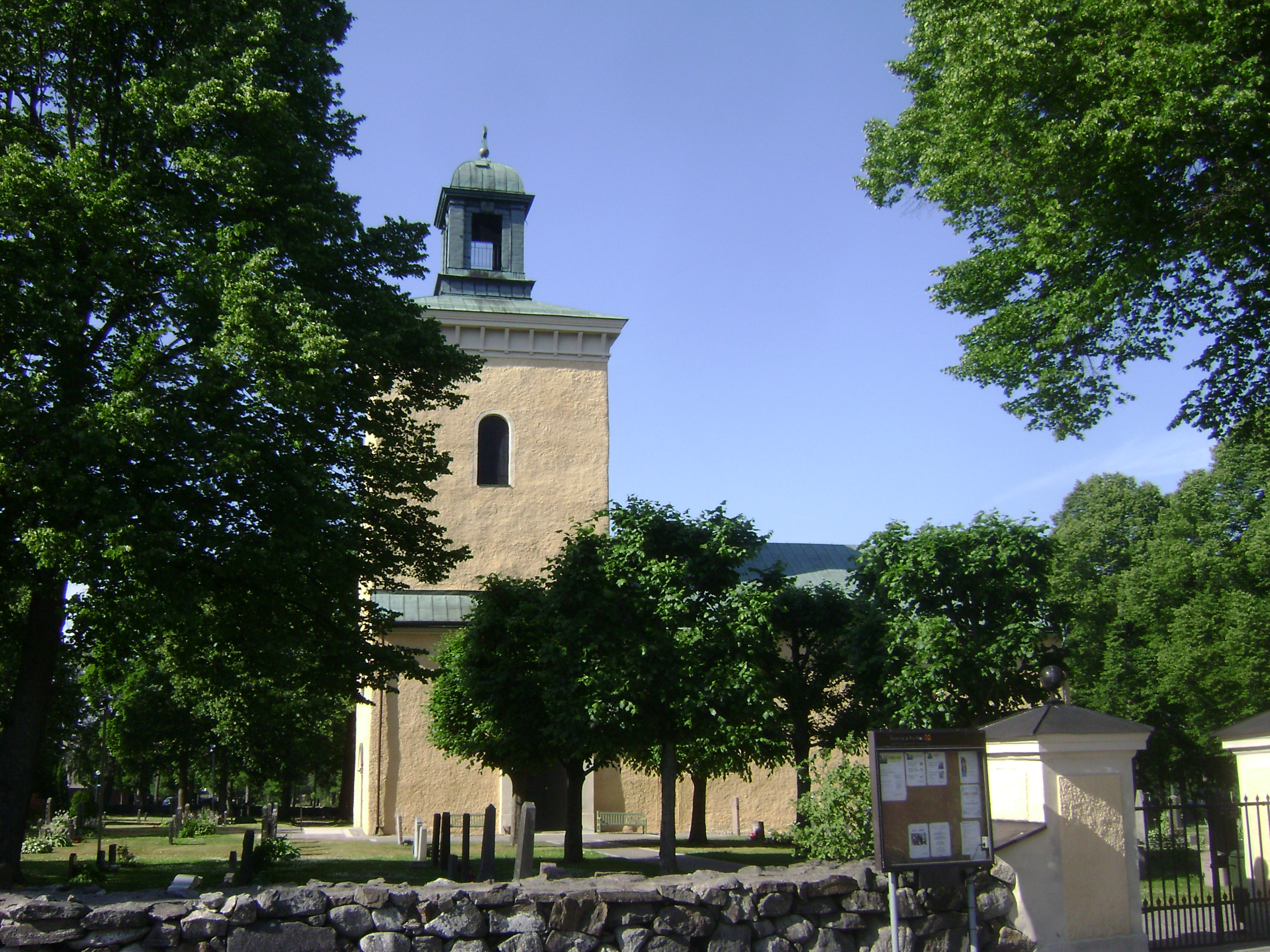 Sweden. Stockholm County. Haninge Municipality. Västerhaninge